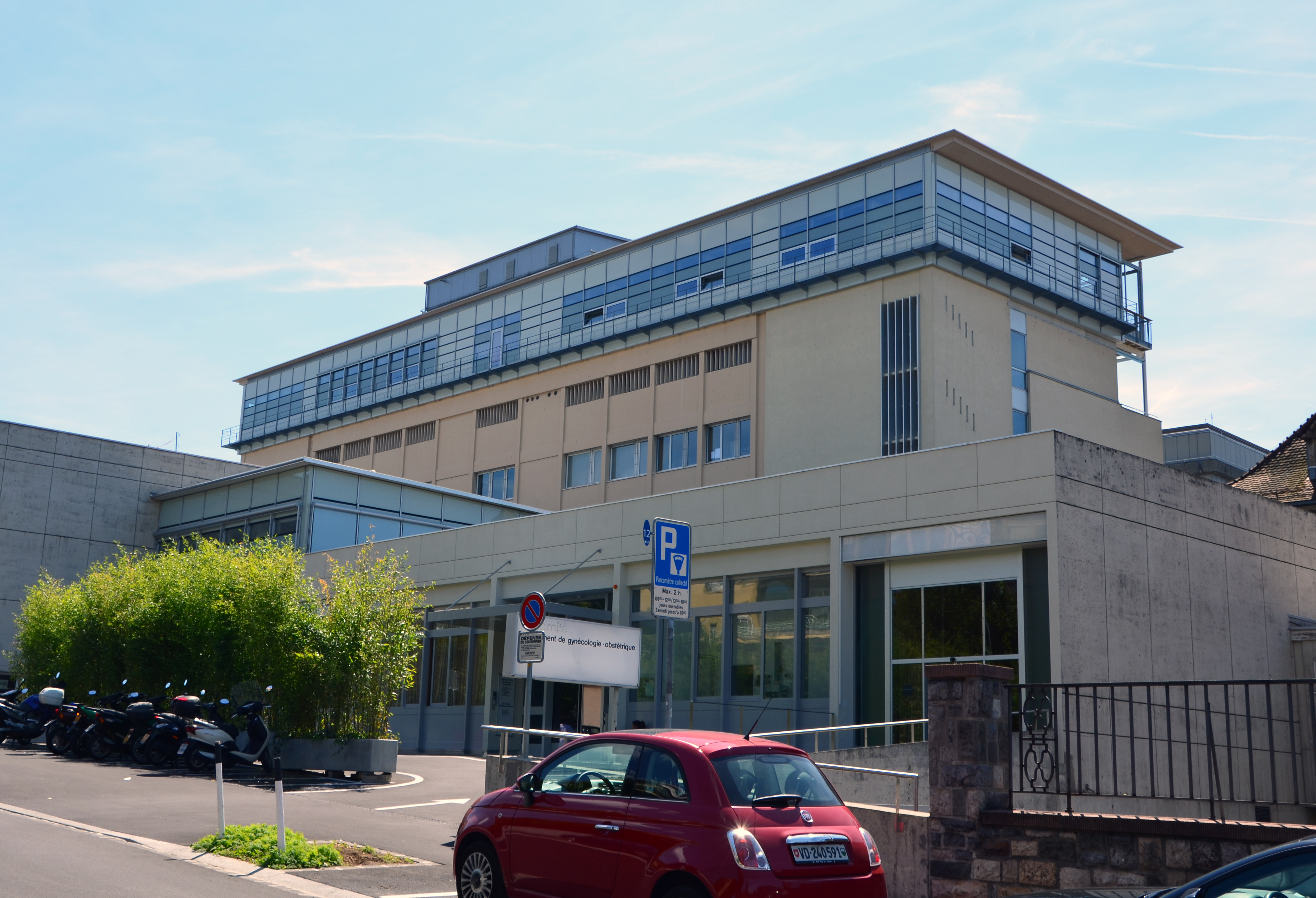 The gynecology-obstetrics and neonatology department of the Vaudois University Hospital Center (Lausanne, Switzerland).